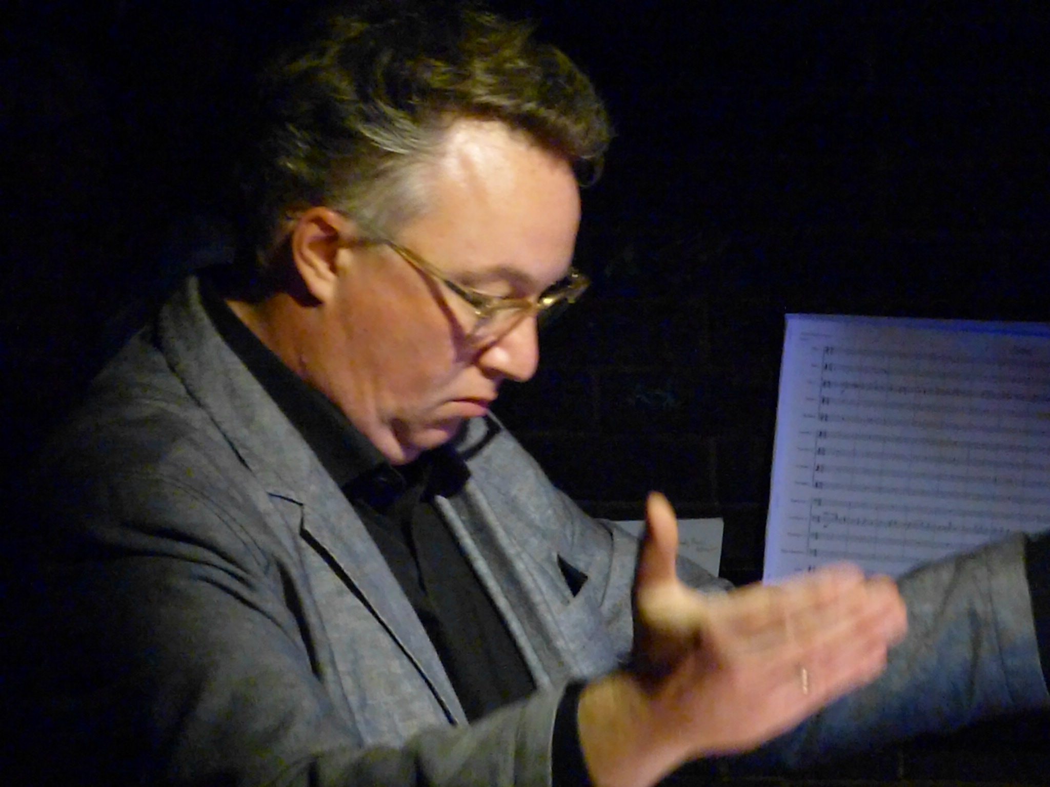 Florian Ross (arr,comp) in the concert "Big Company" of the Subway Jazz Orchestra feat. Florian Ross, September 12th, 2018 at Subway (Cologne), Germany, with Shannon Barnett and others